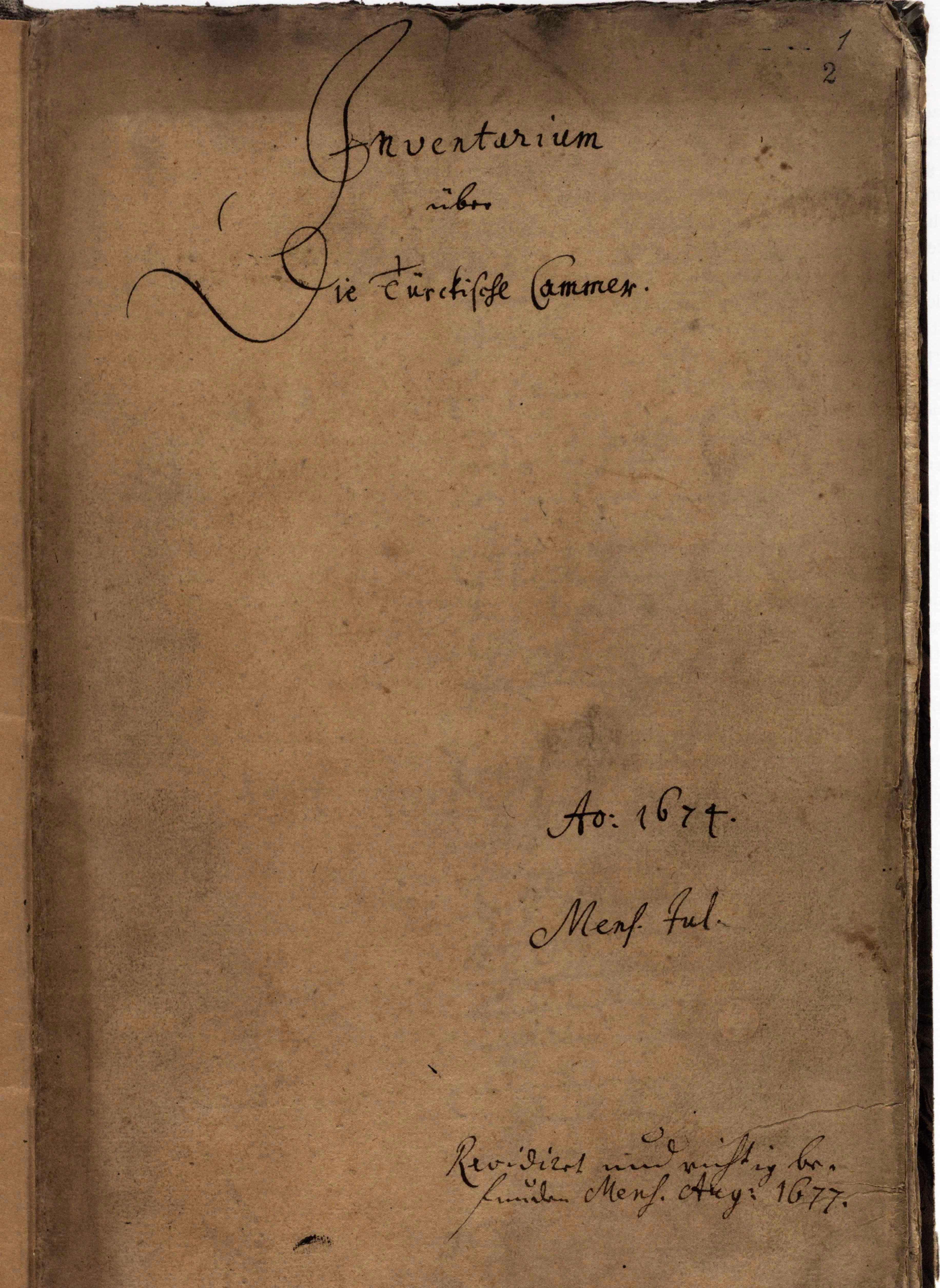 Titelpage of the first inventory of the oriental holdings of the Rüstkammer, compiled in 1674